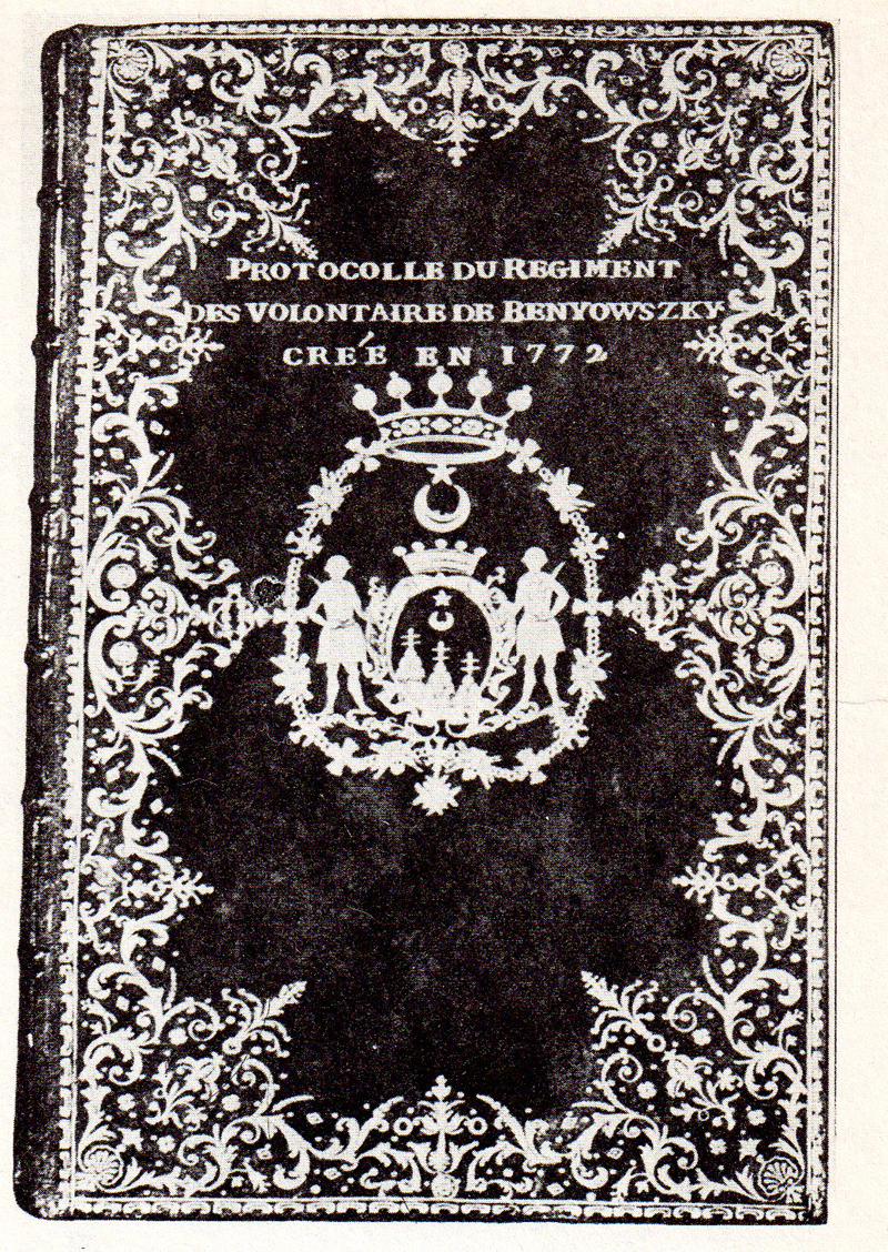 Cover Page of the "Protocolle Du Regiment Des Volontaire De Benyowszky"